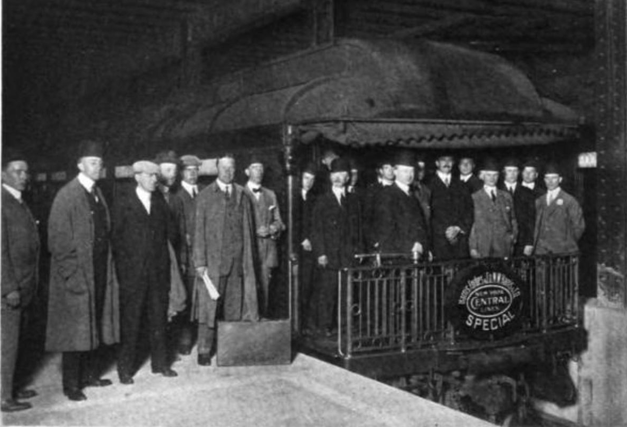 OFFICERS, EMPLOYEES AND GUESTS OF HARRIS, FORBES & CO., LEAVING NEW YORK, GRAND CENTRAL STATION, TO ATTEND BANQUET TENDERED BV HARRIS TRl'ST AND SAVINGS BANK OF CHICAGO IN LOBBY OF NEW BUILDING